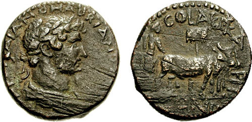 JUDAEA, Aelia Capitolina (Jerusalem). Hadrian. 117-138 CE. Æ 22mm (11.03 gm, 11h). Struck 136 CE. IMP[ERATORI] CAES[ARI] TRAIANO HADRIANO AVG[VSTO] P[ATRI] P[ATRIAE] (To the Emperor Caesar Trajan Hadrian Augustus, Father of the Nation), laureate, draped, and cuirassed bust / COL[ONIA] AEL[IA] CAPIT[OLINA] COND[ITA] (Colony of Aelia Capitolina Founded) in exergue, Hadrian, as priest-founder, plowing with team of oxen right; vexillum behind. Meshorer, Aelia 2; Hendin 810; SNG ANS -. VF, adjustment marks, dark brown patina. The first coinage of the new colony.